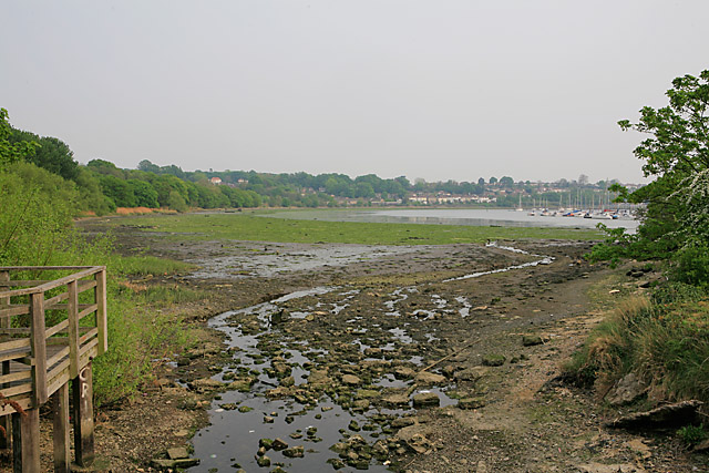 Chessel Bay, Southampton. Showing what happens to 320239 if you add light and subtract water.